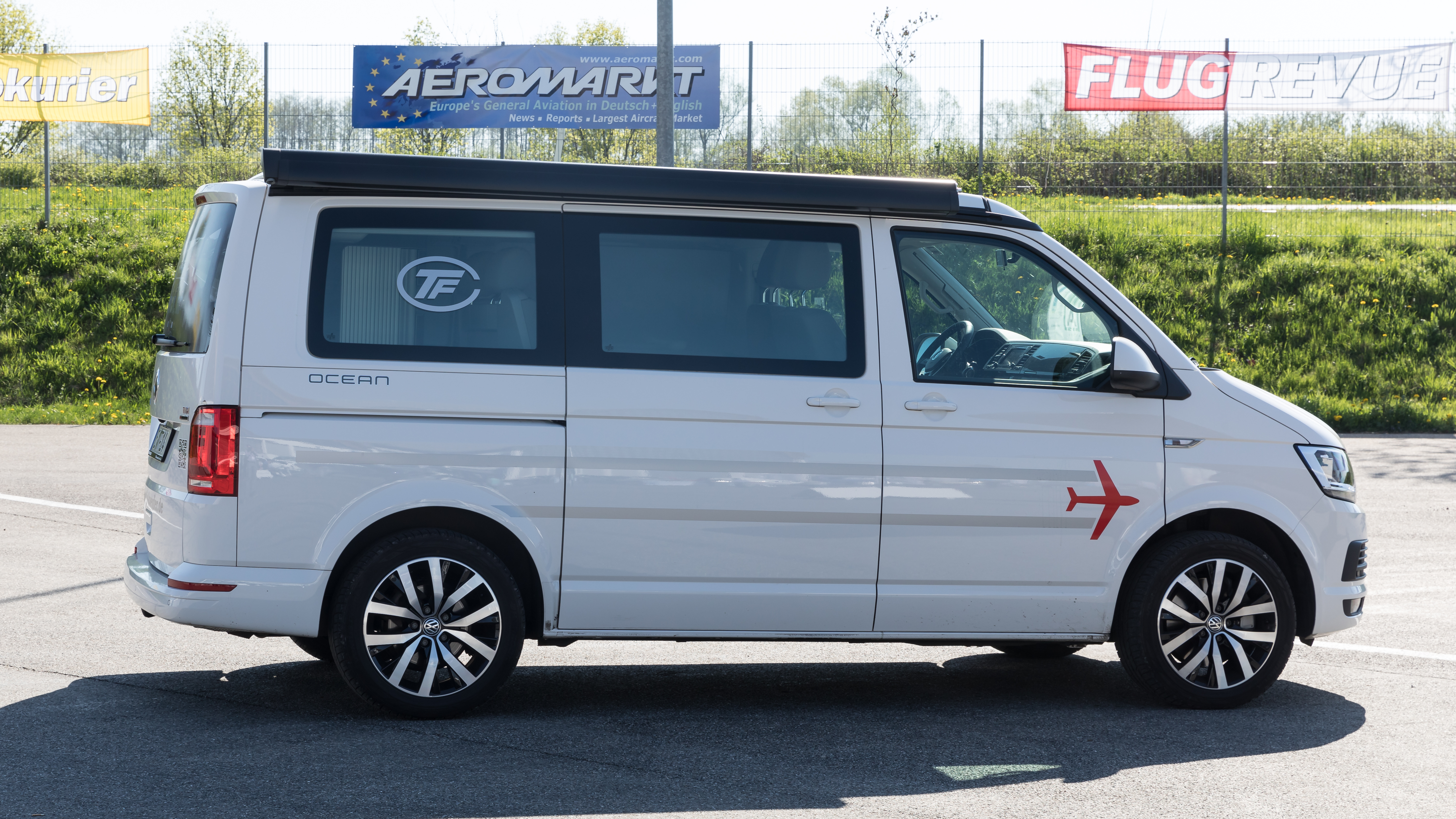 VW California Ocean, AERO Friedrichshafen 2018